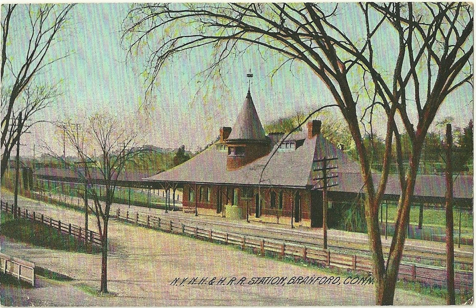 Early divided back postcard of Branford station